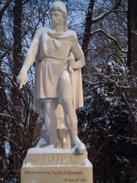 Rollo, 1st Viking Count of Rouen (Normandie) by the artist Arsène Letellier